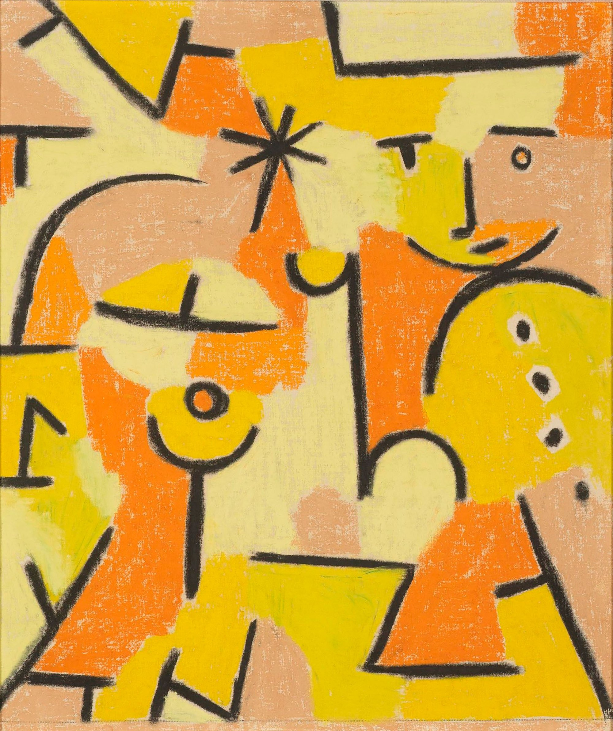 Figur in Gelb (Figure in Yellow) by Paul Klee, 1937, pastel on canvas laid on jute, on board, 49.5 x 42.5 cm.